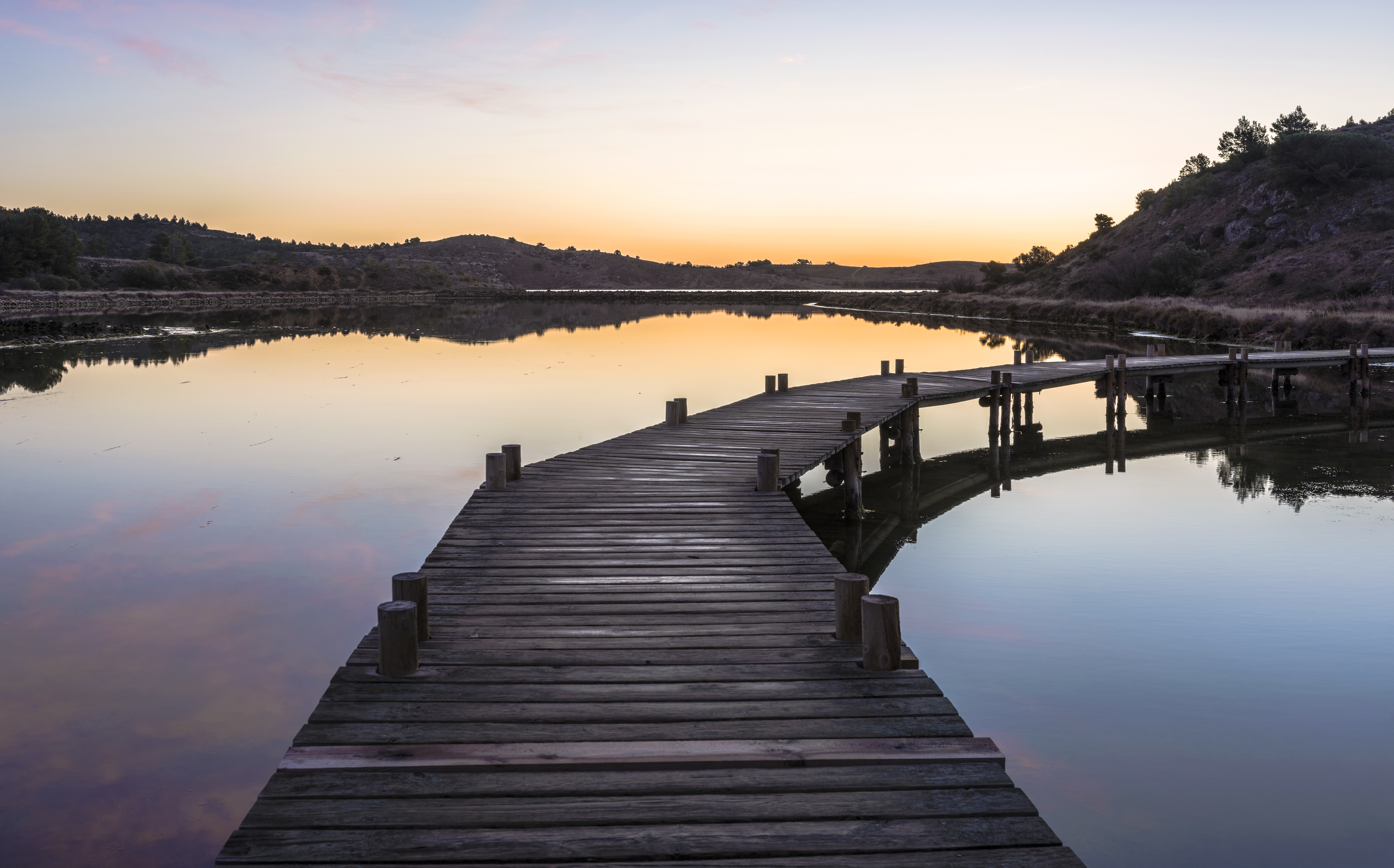 Hills, trees and footbridge reflected in the former salt ponds of Peyriac-de-Mer, Aude, France